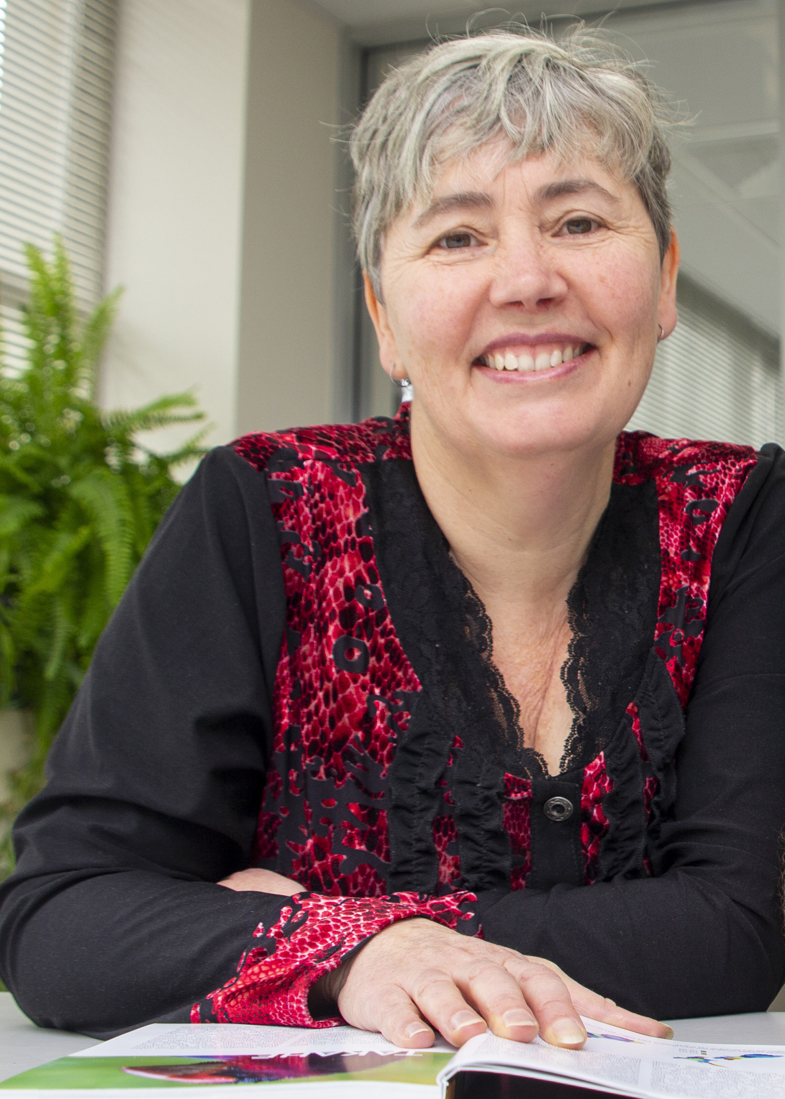 The authors of a book called New Zealand Wildlife (Steven Trewick and Mary Morgan-Richards) pose at Massey University with an insect (tree weta) and copies of their book hot off the press in August2019